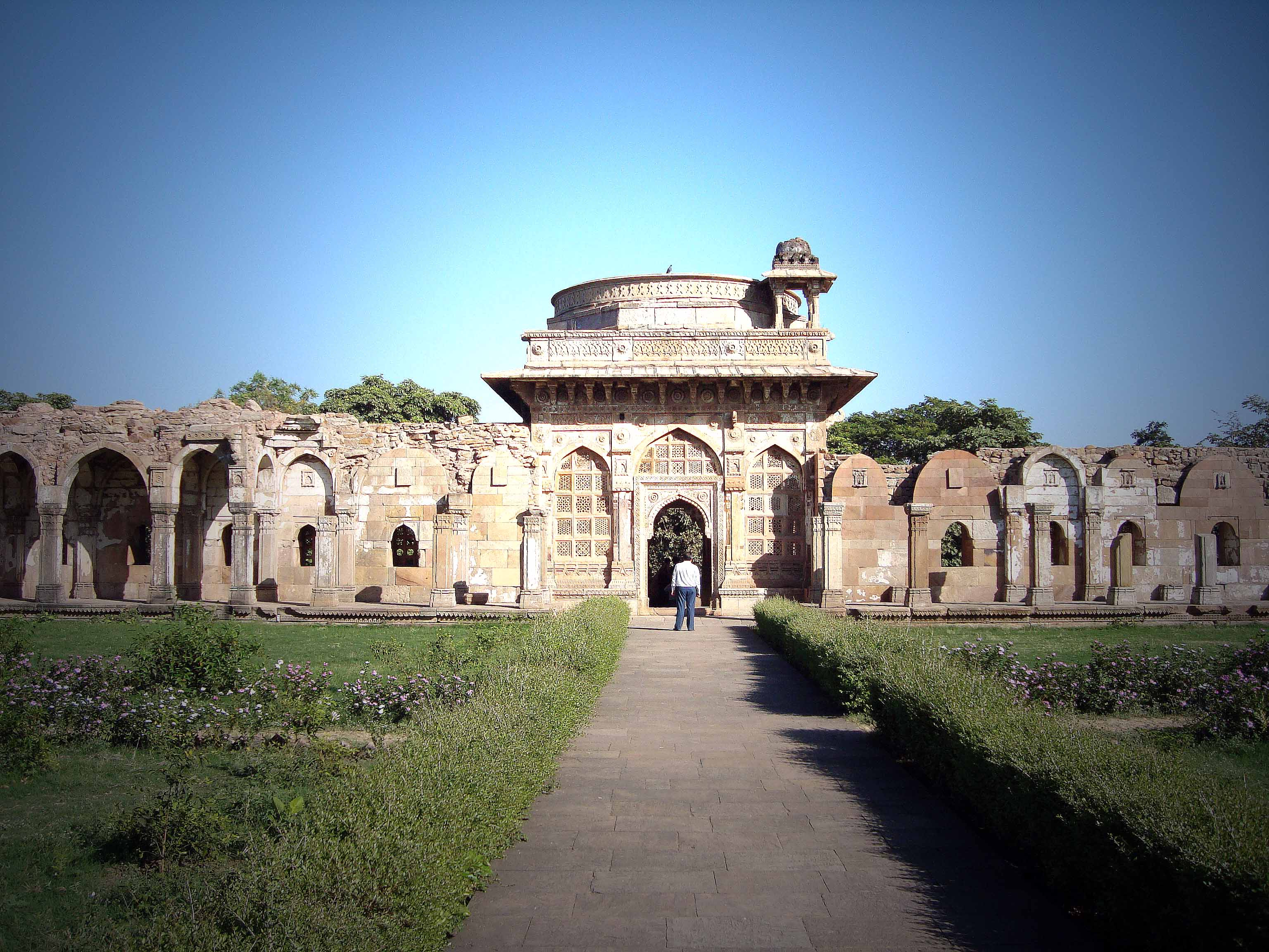 Jami Masjid Champaner Godhra